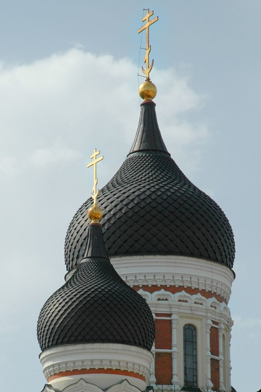 Alexander Nevsky Cathedral, Tallinn